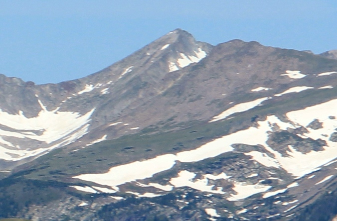 Lead Mountain viewed from the Tundra Communities Trail